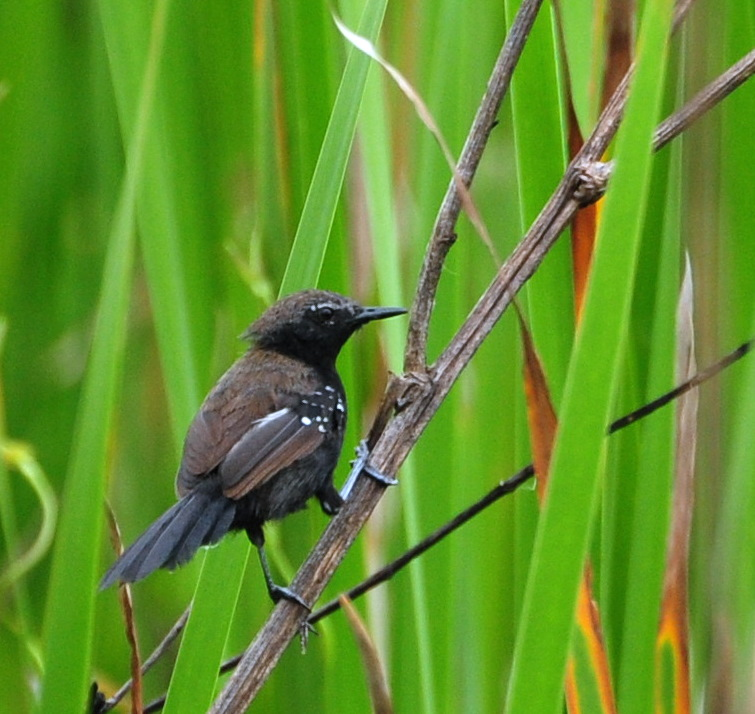 Male São Paulo Marsh Antwren (Formicivora paludicola; "bicudinho-do-brejo-paulista") in Biritiba-Mirim, São Paulo, Brazil. A recently discovered species. Closely related to the Paraná/Marsh Antwren (Formicivora [Stymphalornis] acutirostris)